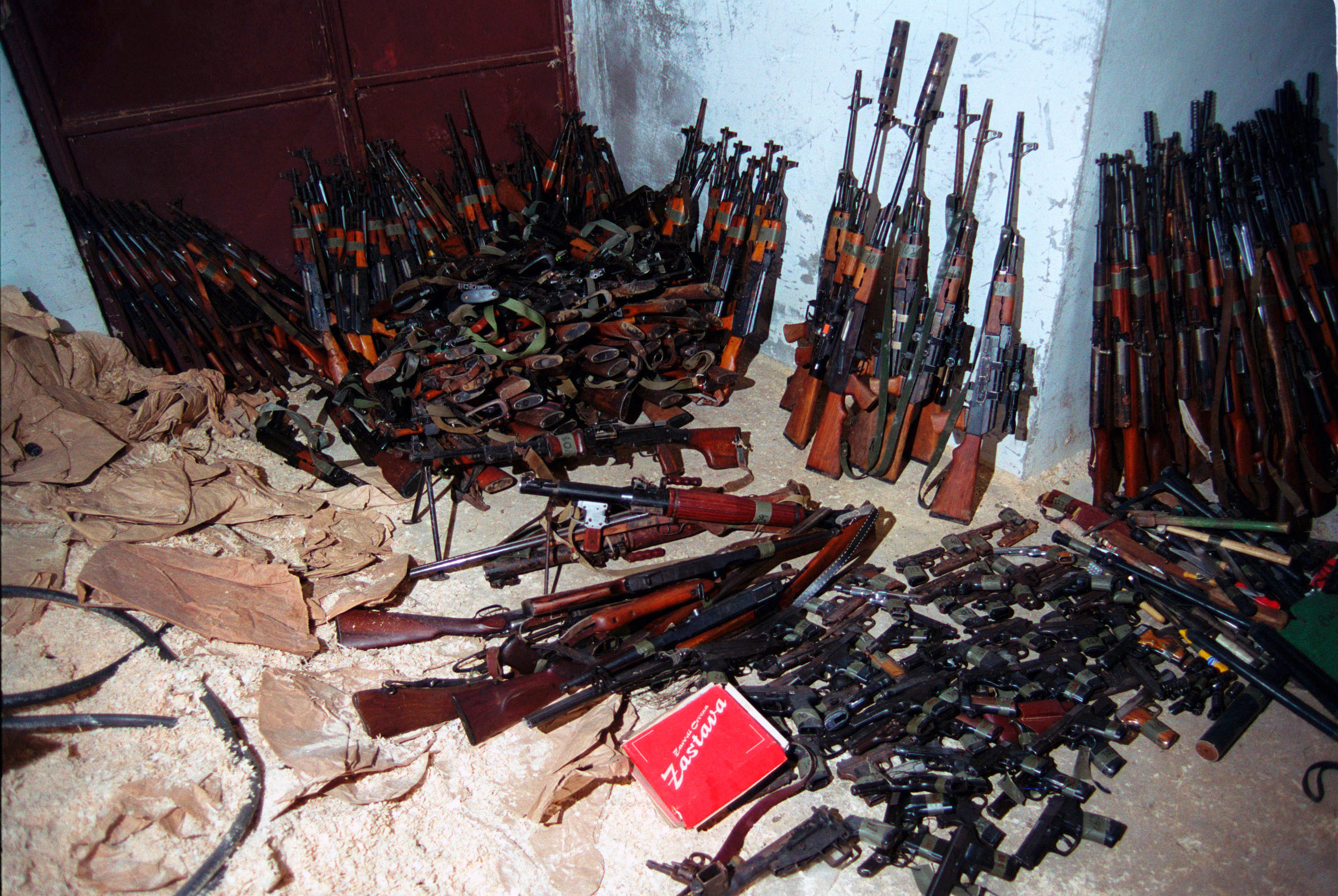 Weapons confiscated from the Kosovo Liberation Army (KLA). They were being stored at MEU Service Support Group (MSSG)-26 Compound at Camp Montieth. The Marines and sailors of the 26th Marine Expeditionary Unit (MEU) are helping to enforce the implementation of the military technical agreement and to provide peace and stability to Kosovo during Operation JOINT GUARDIAN.